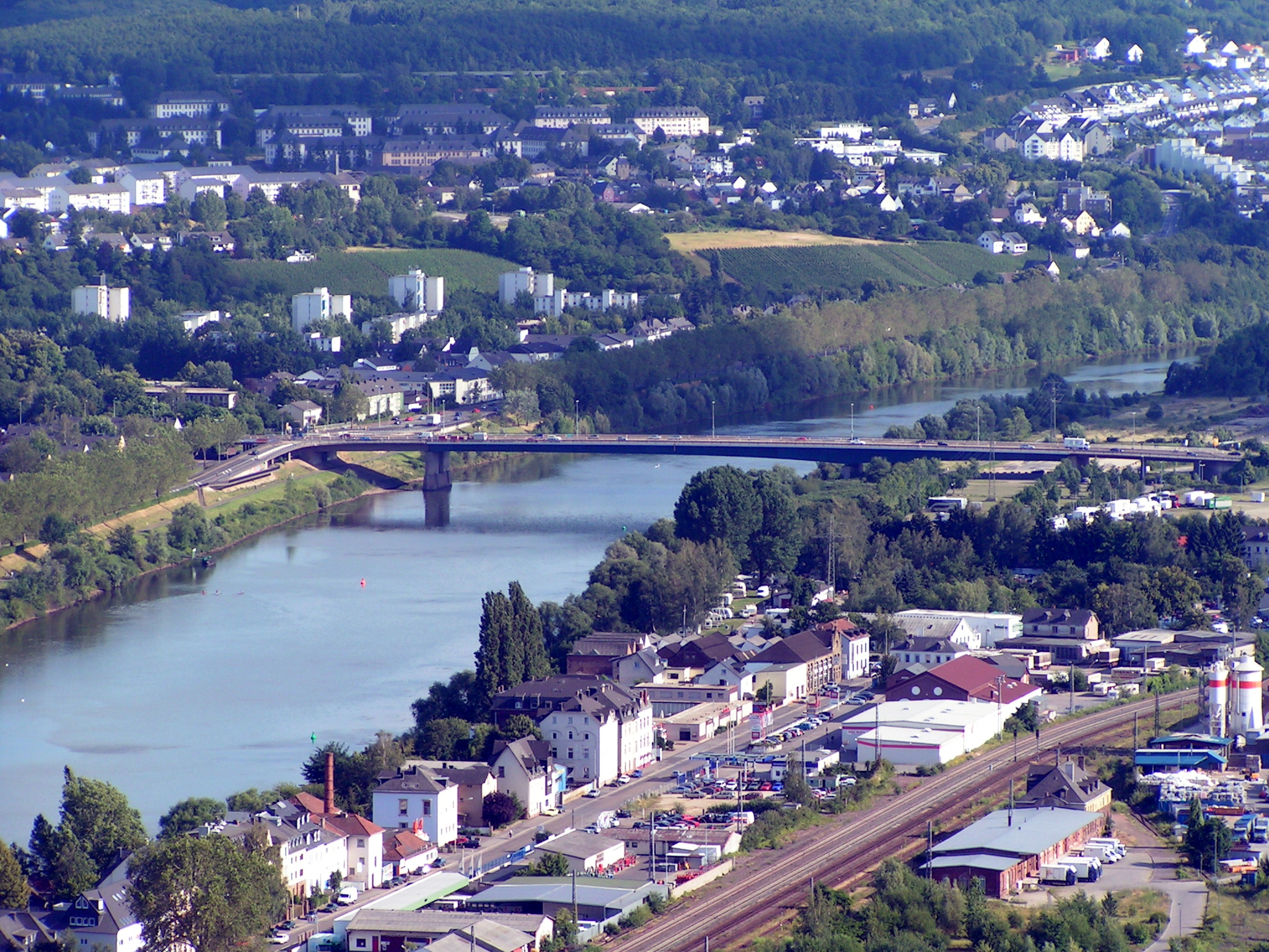 Konrad-Adenauer-Brücke in Trier, Germany